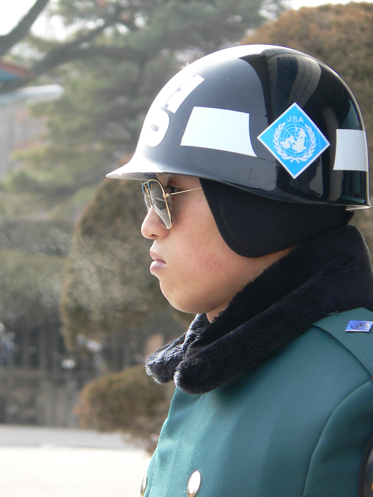 Photo of a soldier of the Korean Demilitarized Zone.